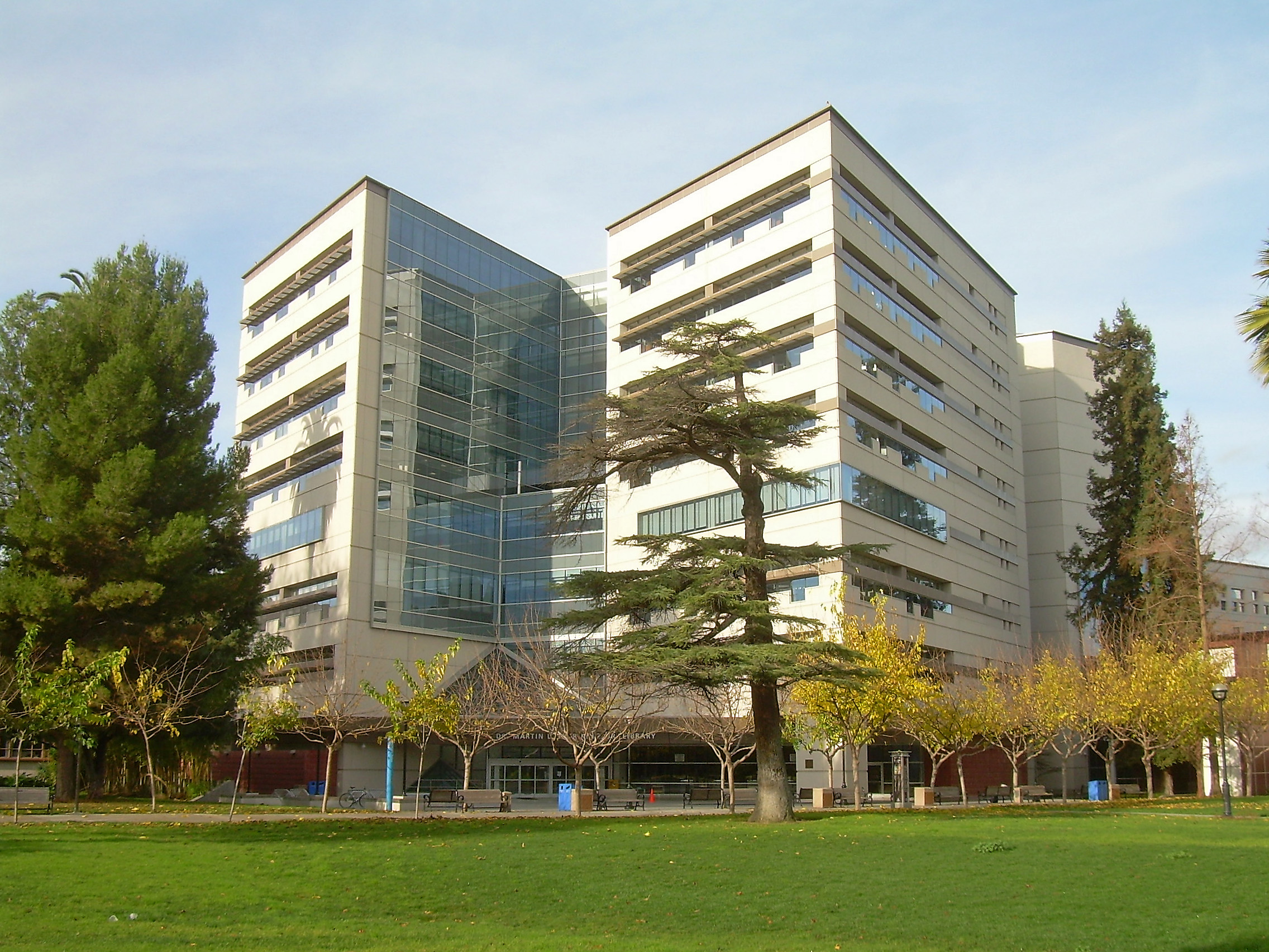 Dr. Martin Luther King, Jr. Library at San Jose State University, built in 2003.